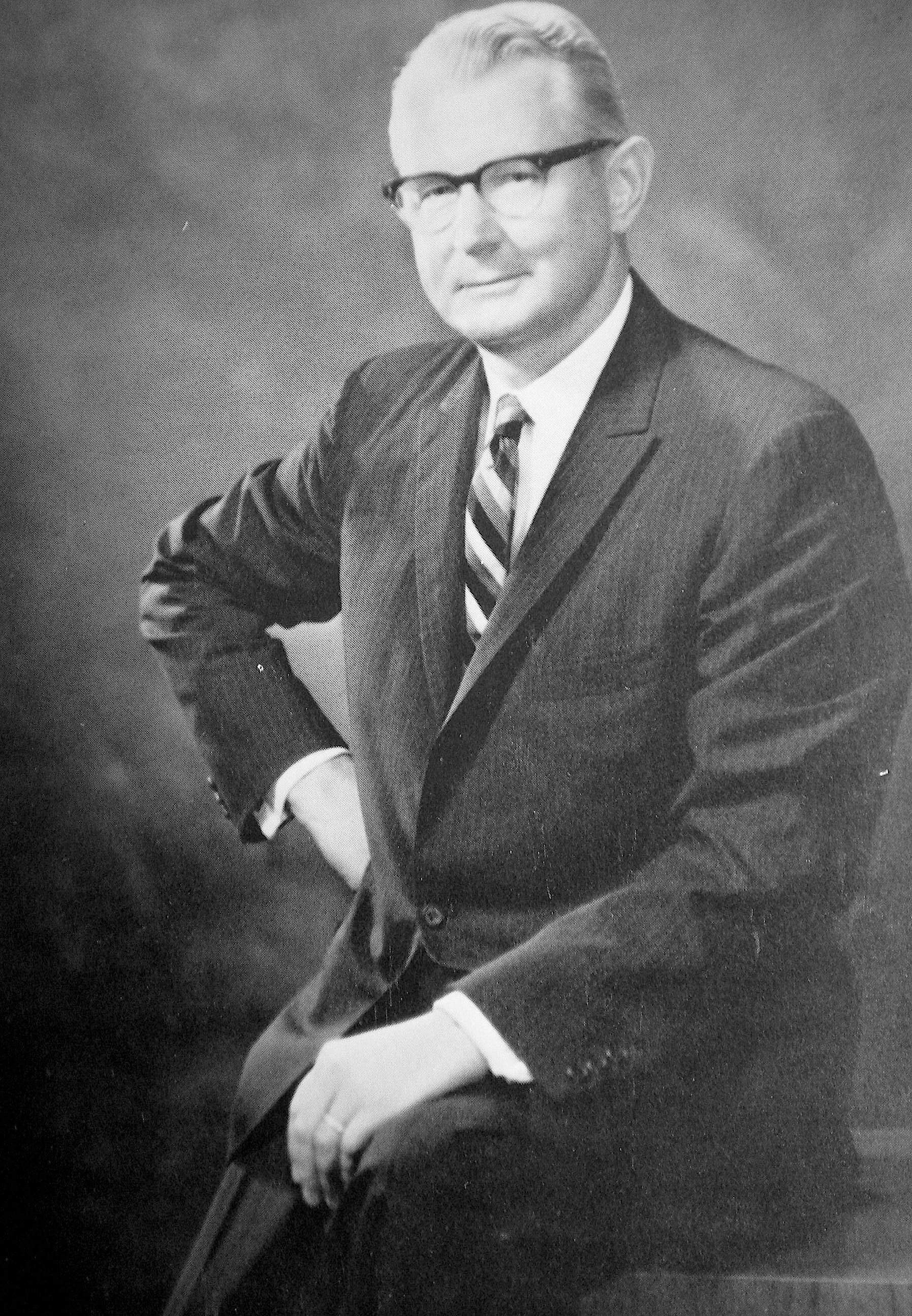 Philip G. Hoffman, fifth president of the University of Houston, first chancellor of the University of Houston System.